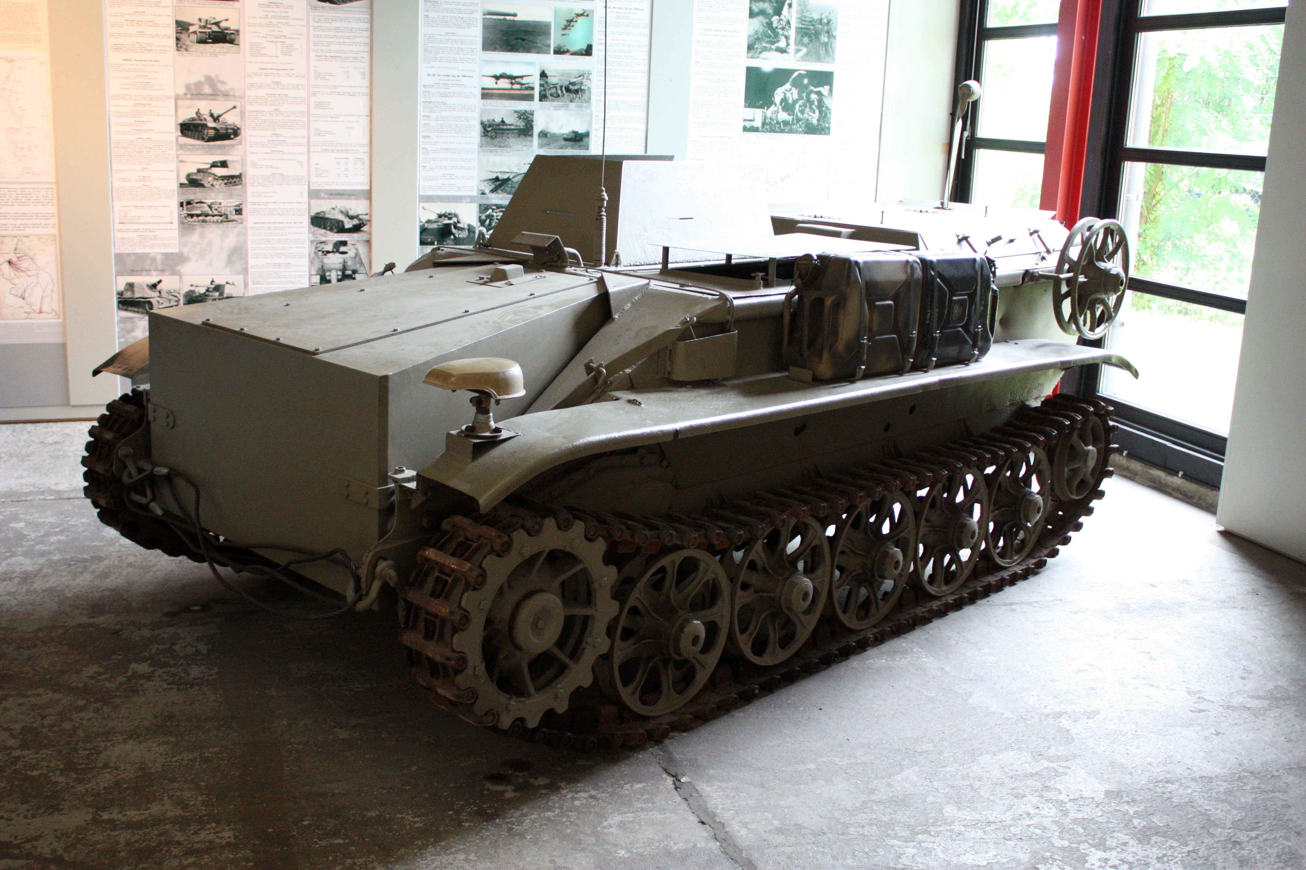 Borgward IV self propelled charge. German Tank Museum, Munster, Lower Saxony, Germany.